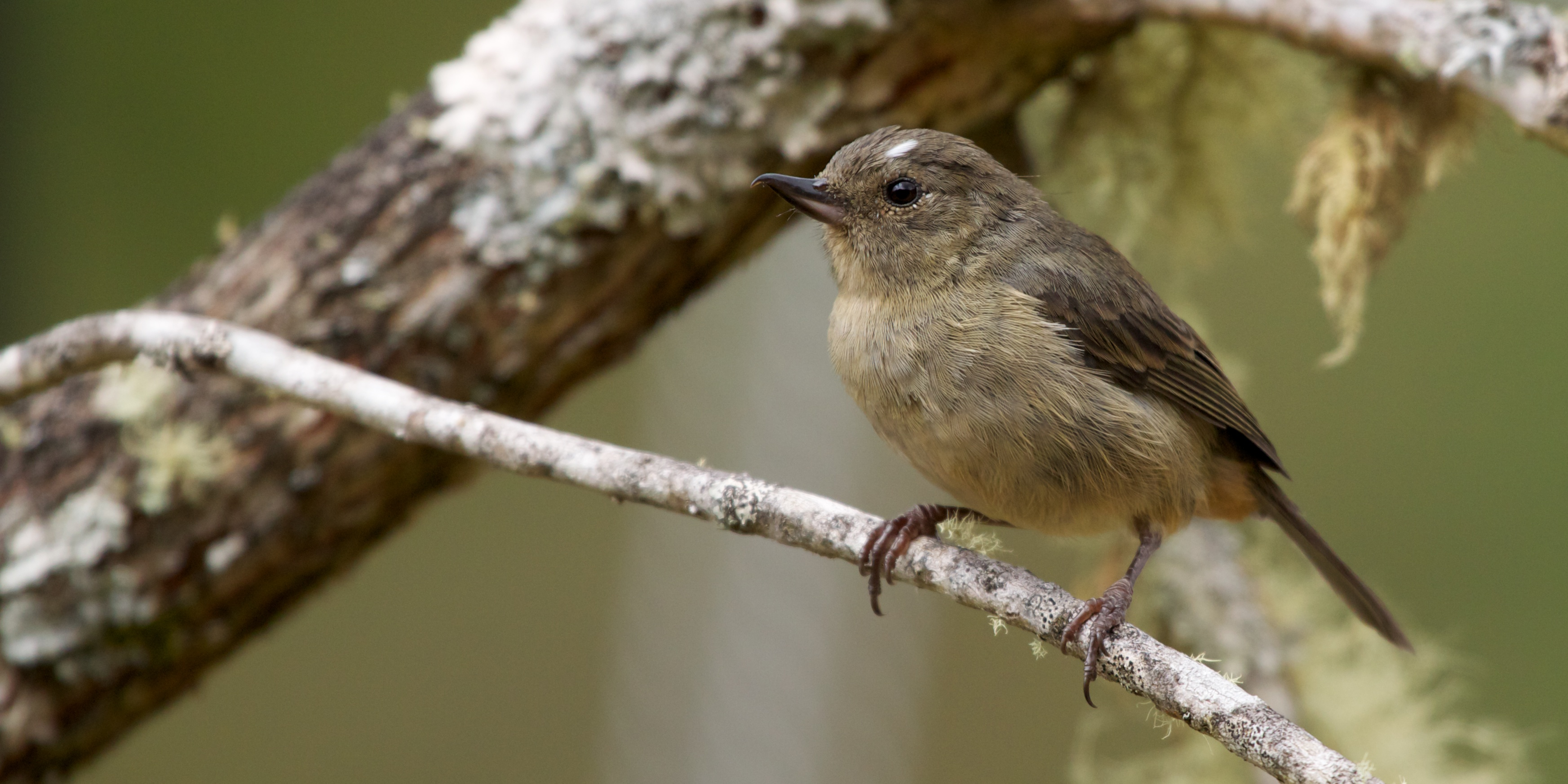 A female Slaty Flowerpiercer in Limón, Costa Rica.